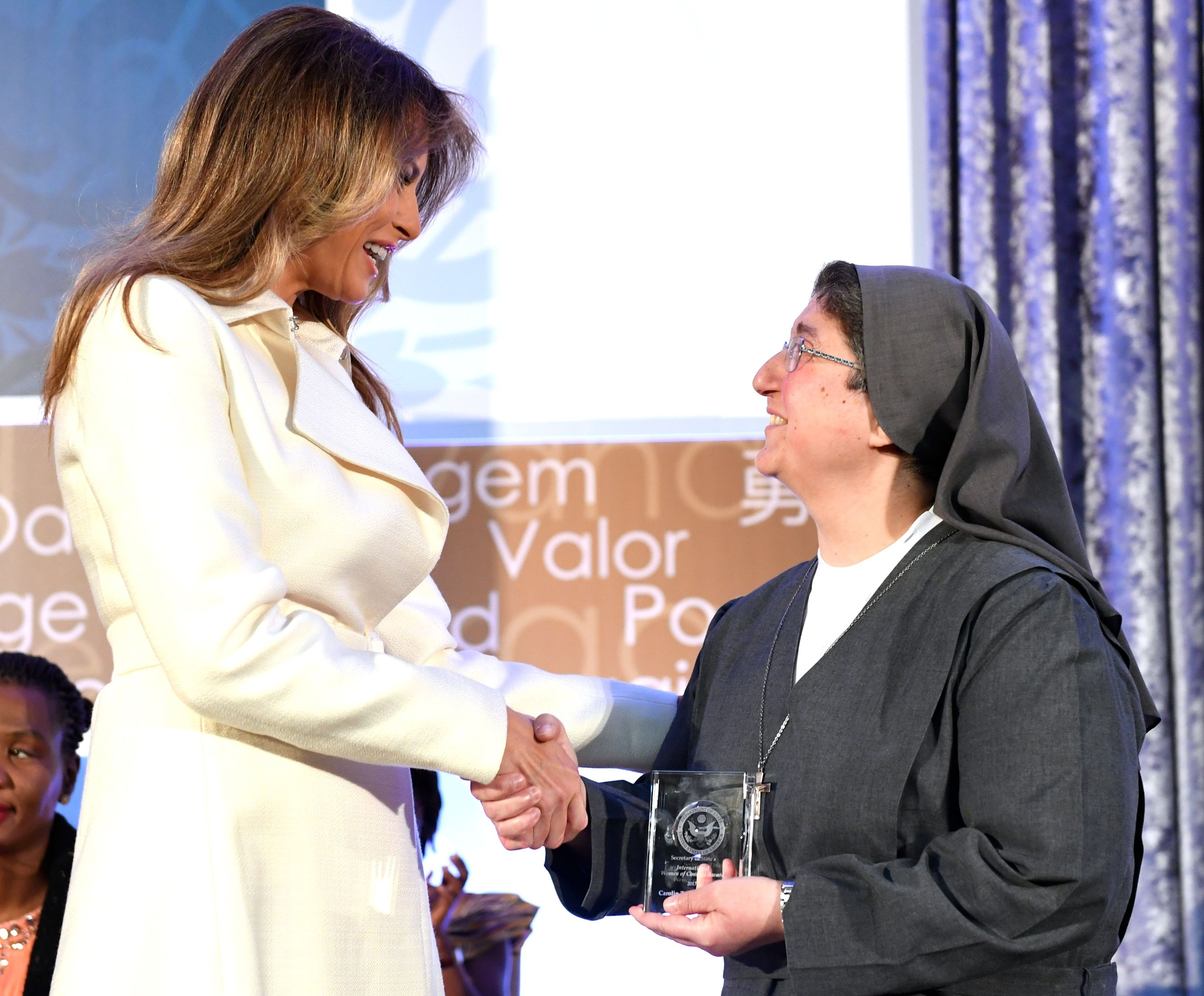 "First Lady Melania Trump poses for a photo with 2017 International Women of Courage Awardee Sister Carolin Tahhan Fachakh of Syria during a ceremony at the U.S. Department of State in Washington, D.C., on March 29, 2017." "Sister Carol, as she is known, is a member of the Daughters of Mary Help of Christians. Throughout the war, Sister Carol has remained in Damascus, although she was born in Aleppo. She has put her life at risk to serve the people in this war-torn country and remains a beacon of hope. The nursery school she runs establishes a safe and friendly environment for more than 200 Muslim and Christian children, many of whom have been traumatized by the events of the war. The tailoring workshop, a United Nations Human Rights Council program she manages, provides a much-needed supportive community to vulnerable internally displaced women. The women receive an income and a job prospect, as well as support for their everyday needs. During the first year of the program, there were 14 pupils. Today over 100 Muslim and Christian women participate in the program, many of which have lost everything fleeing from other parts of Syria. At the end of the year-long training, participants have two choices: they can start working at home with a sewing machine provided by the school, selling their own creations or they can seek employment in the school workshop and earn a salary. Sales profits help the school to buy food for needy families, including some of the pupils and their own families, and to pay for rent, medication, and hospital fees as needed. Sister Carol explains, "We sisters help everyone, giving our all and without making distinctions between Christian and Muslim, following Jesus' example. Our work is also aided by volunteers and Muslim partners, good and generous people who work with such dedication. We feel deeply respected by them as well as by the entire population, including the army." [1]